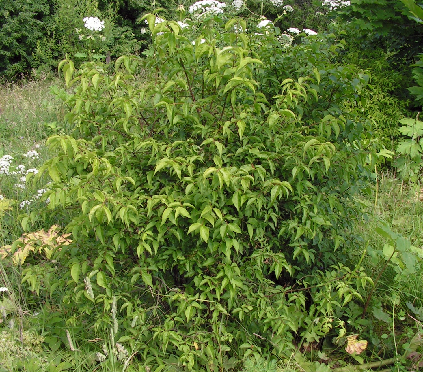 Euonymus verrucosus. Moscow region, Russia.